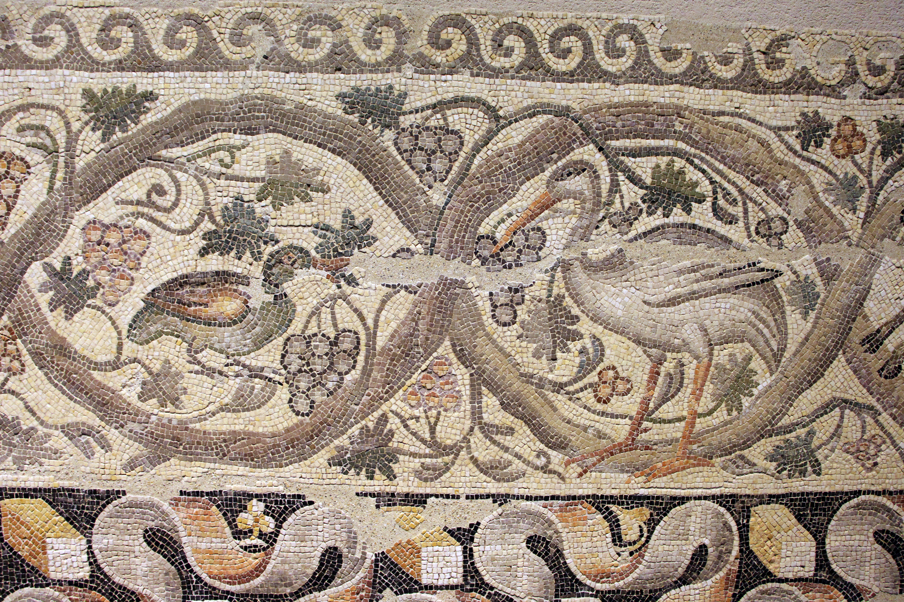 Ancient Roman mosaics in the Louvre